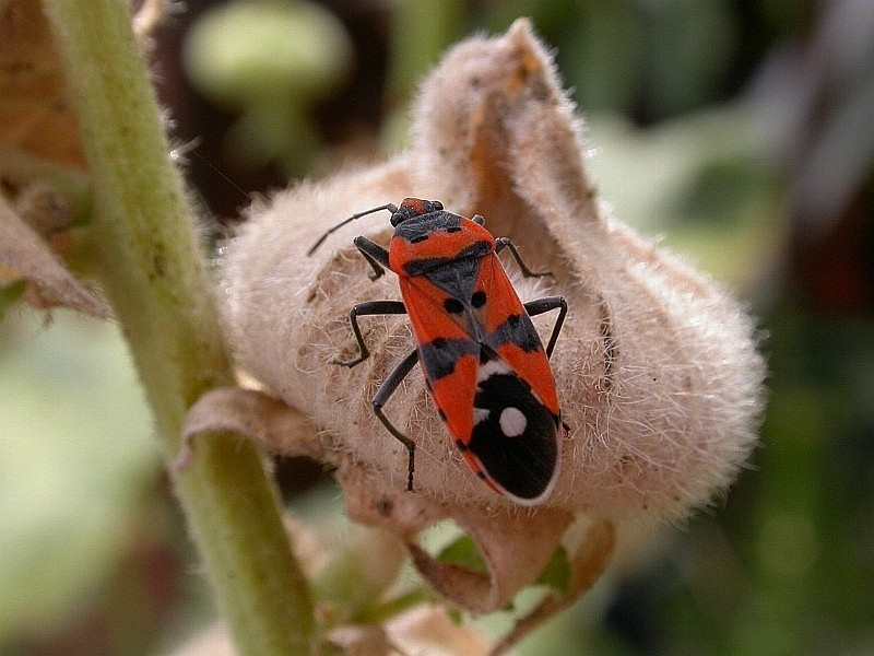 Lygaeus equestris\simulans, Gradignan, Gironde, France